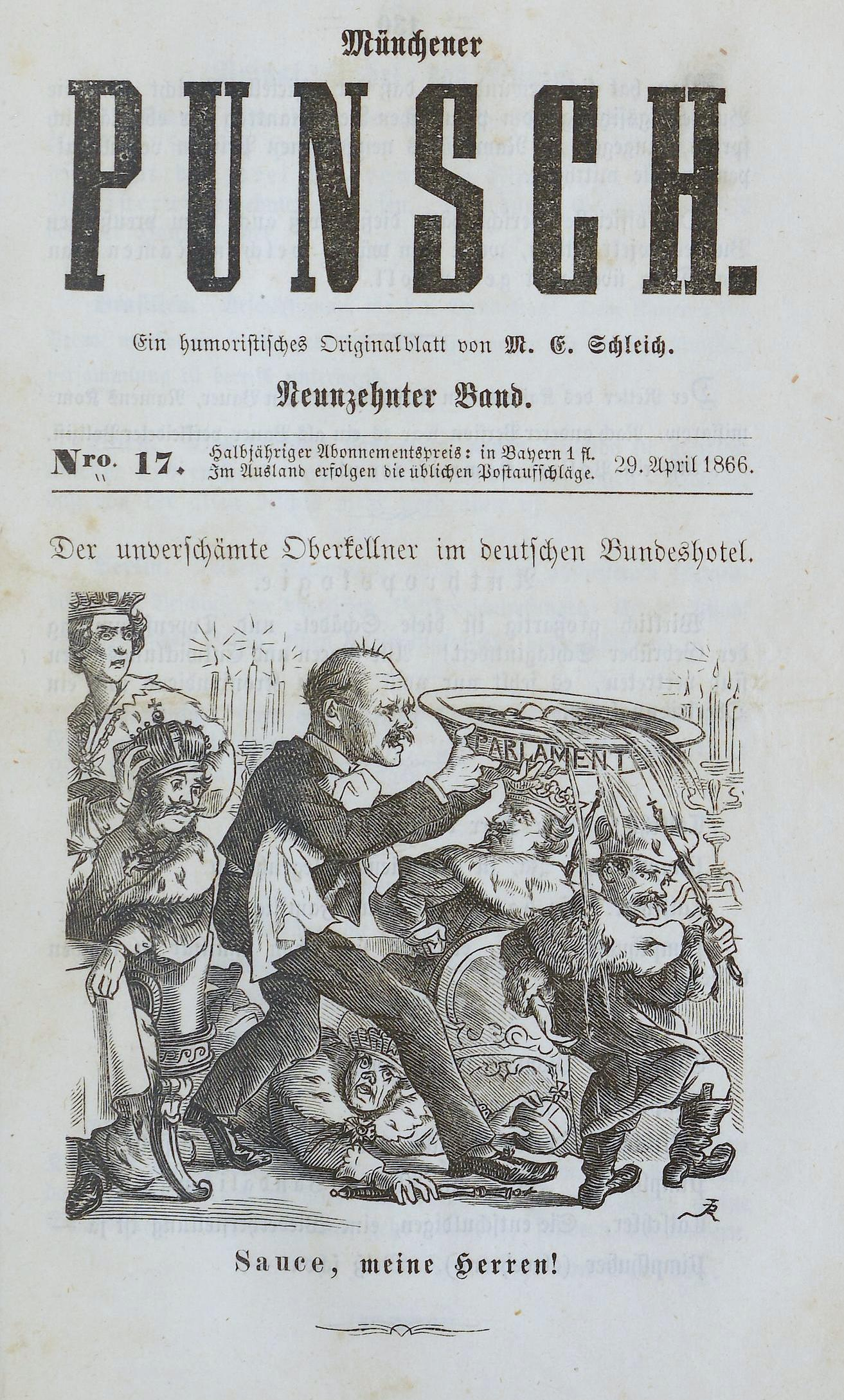 Karikatur